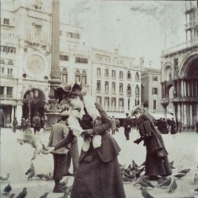 Susan Watkins feeding pigeons in San Marco (ca. 1891-1904). Possibly photography by Goldsborough Serpell, her long-time suitor who accompanied her on her travels through Europe.